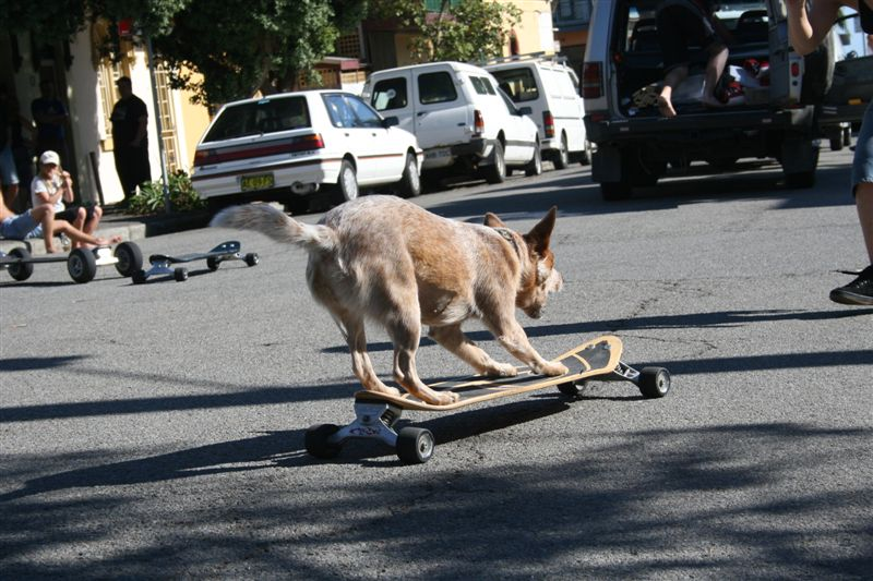 Australian Cattle Dog, Dusty, riding a Skateboard in the East End of Newcastle, NSW, Australia.